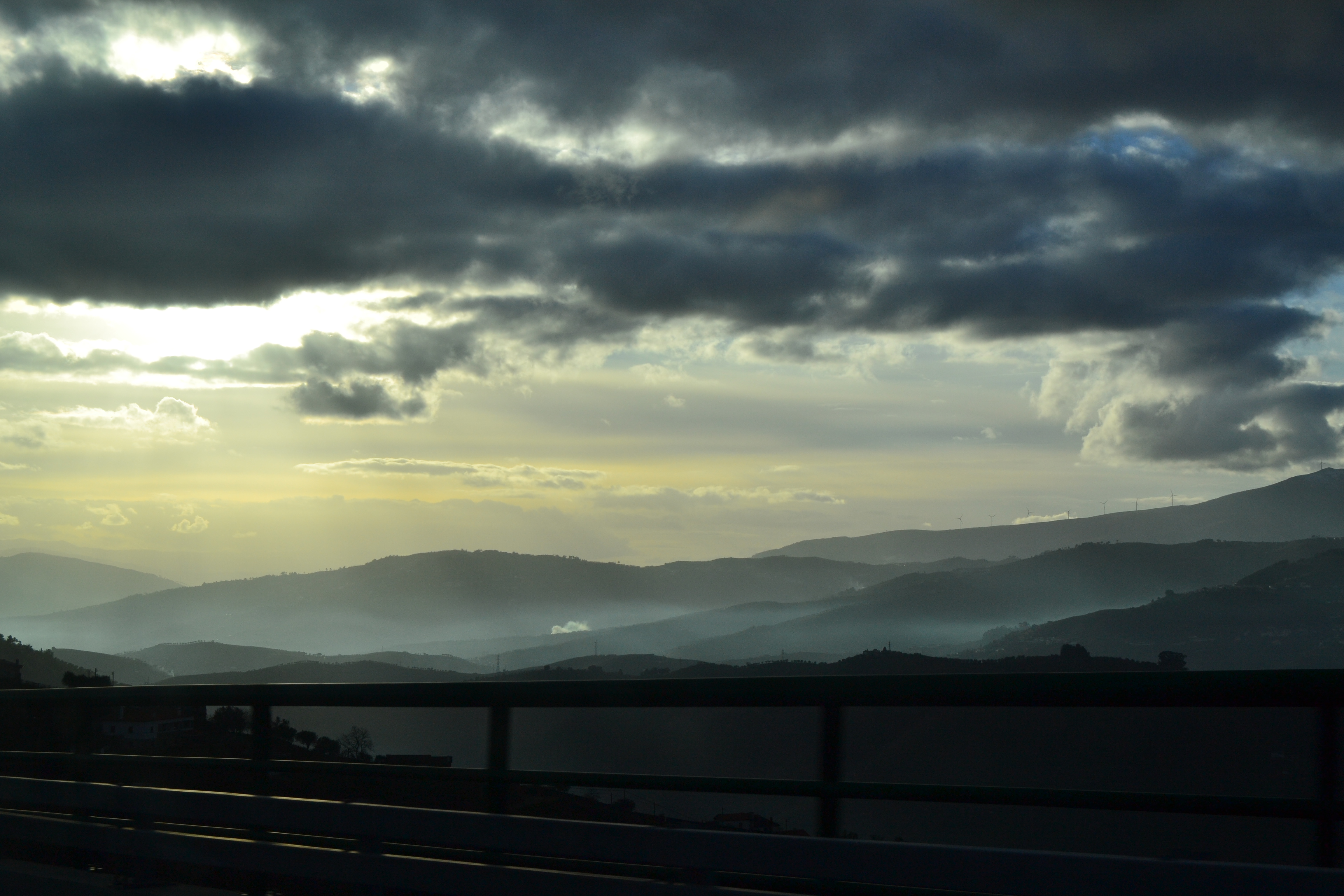 This is a photography of a Site of Community Importance in Portugal with the ID: PTCON0003. Natura2000 entry, EEA entry